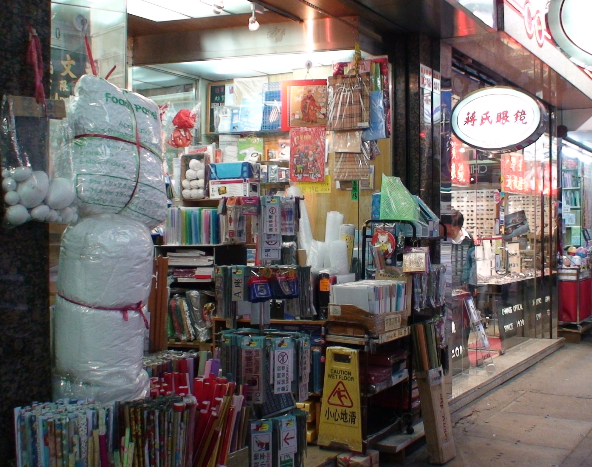 A local version of Stationery store (文具鋪) in Wan Chai, Hong Kong